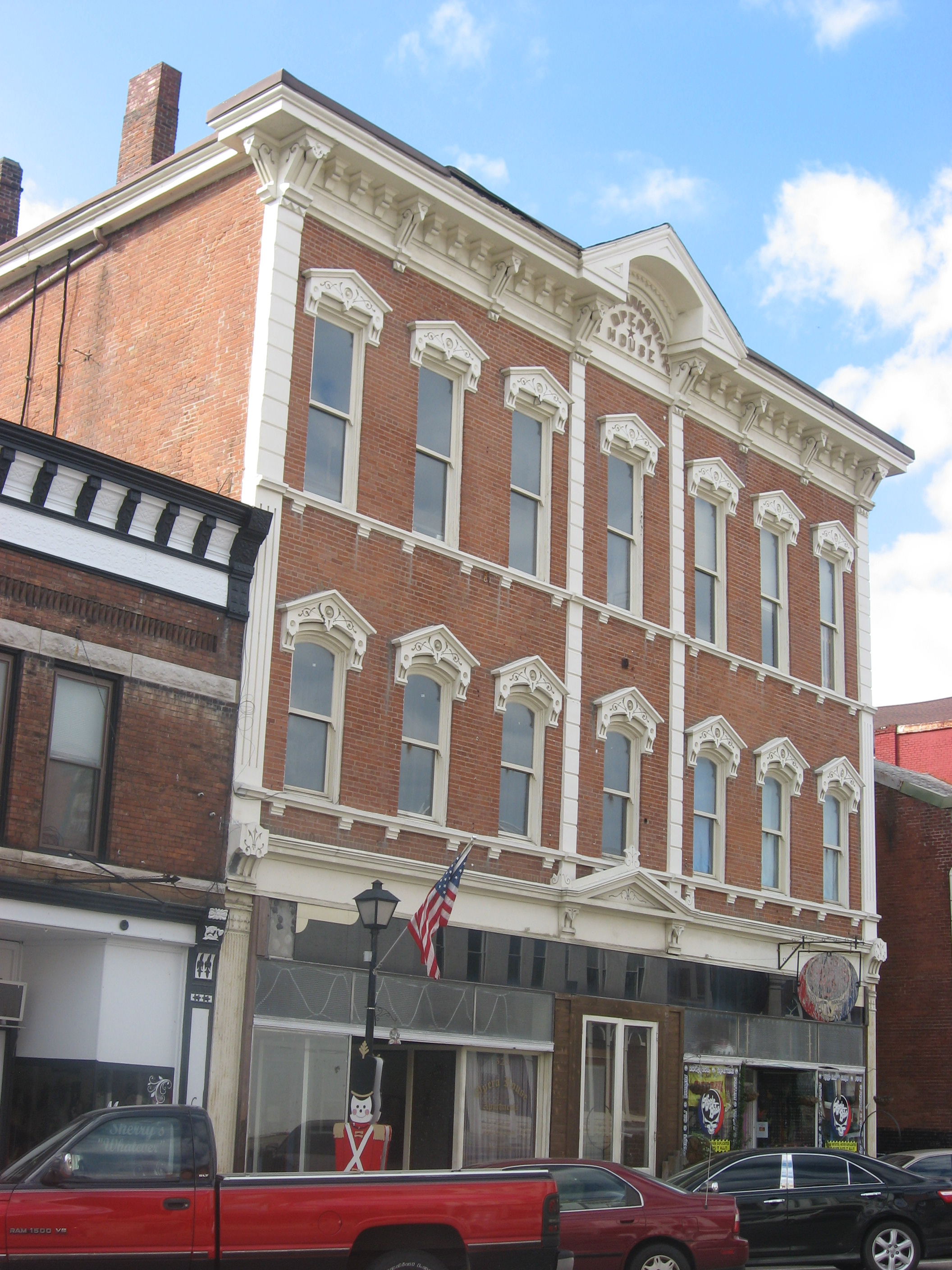 Front of the Leive, Parks and Stapp Opera House, located at 321-325 Second Street in Aurora, Indiana, United States. Built in 1878, it is listed on the National Register of Historic Places, and it is part of a Register-listed historic district, the Downtown Aurora Historic District.